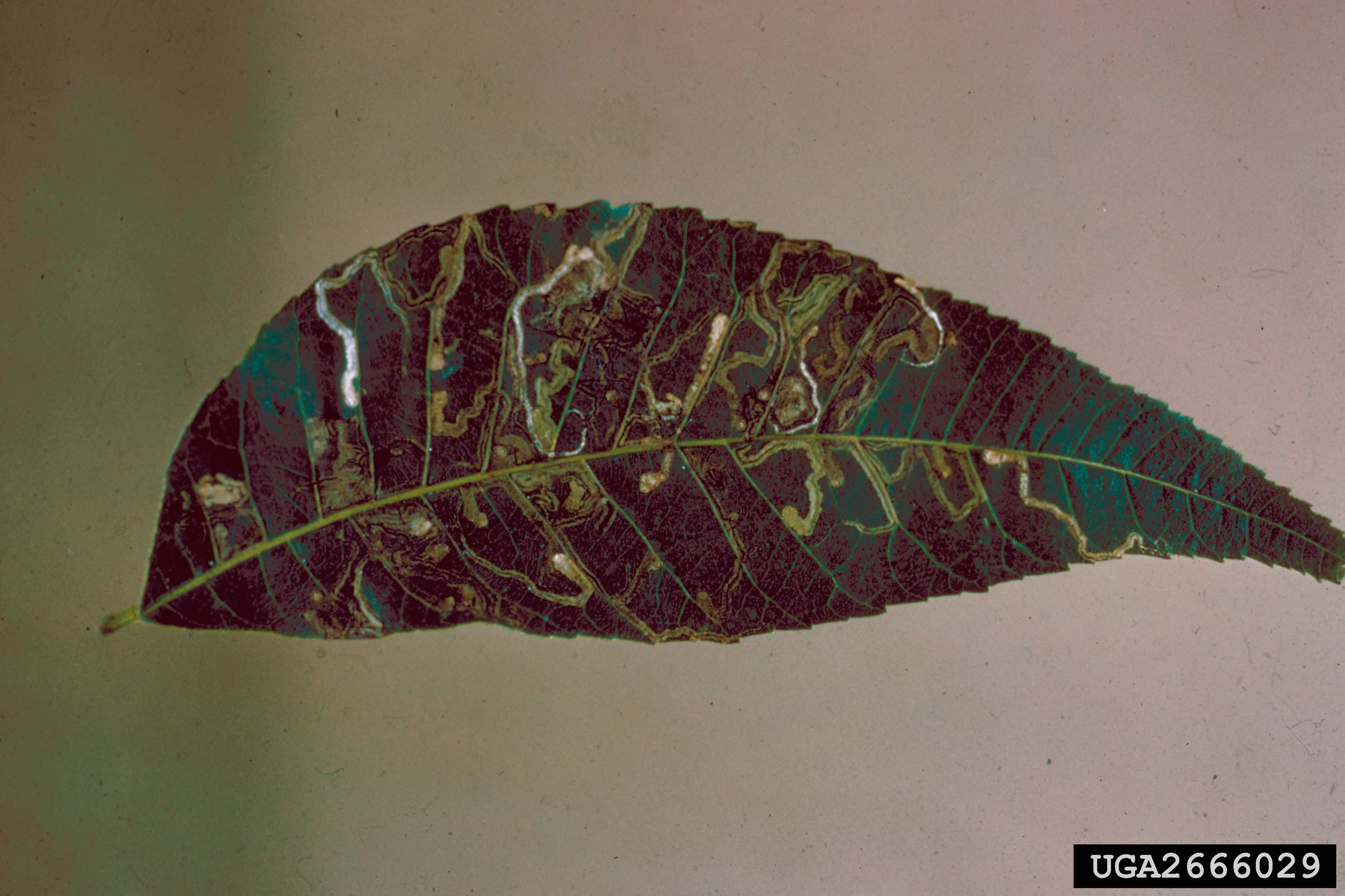 Stigmella judlandifoliella